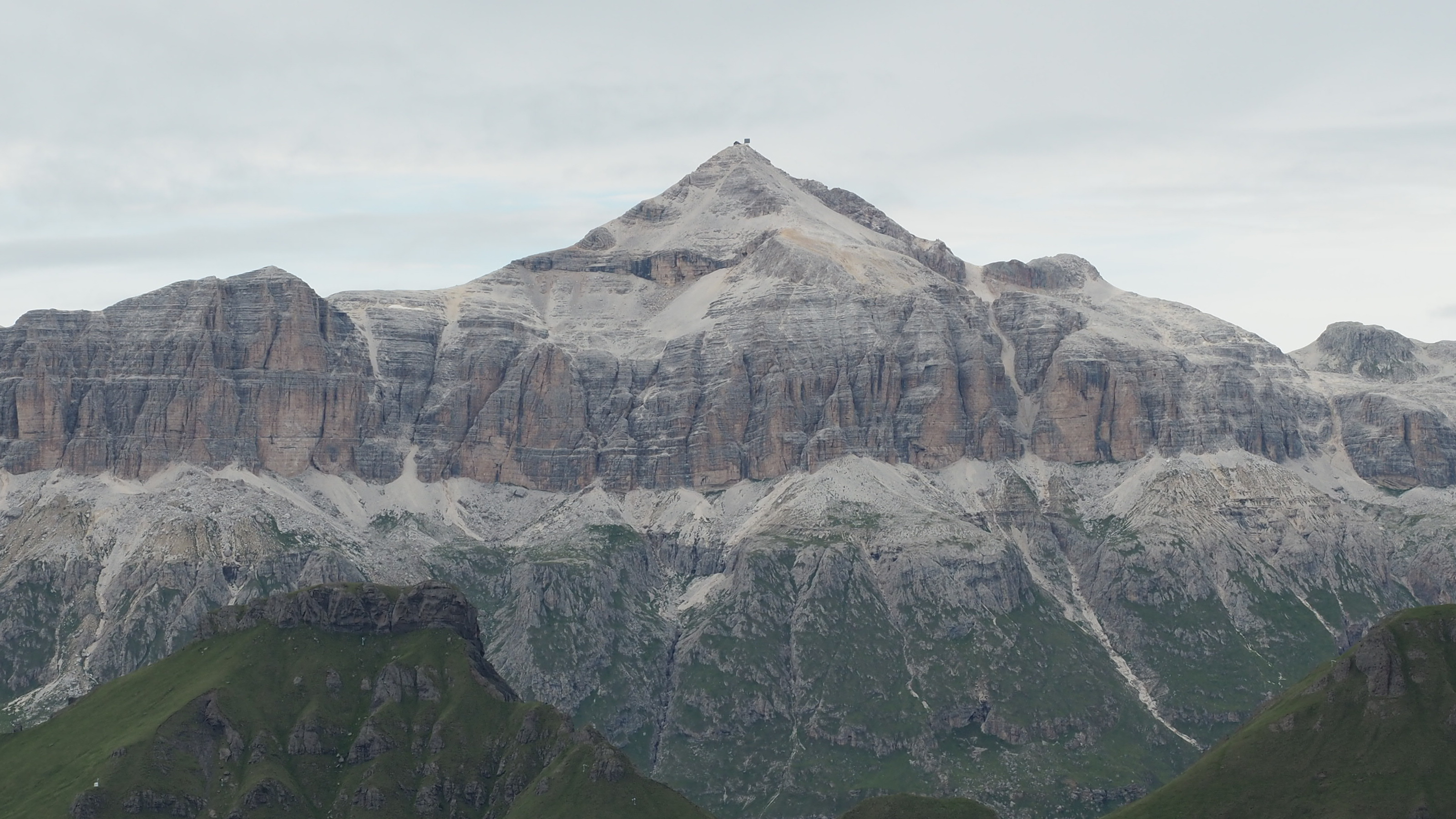 A view of Piz Boè from Marmolada in Jul. 2017.